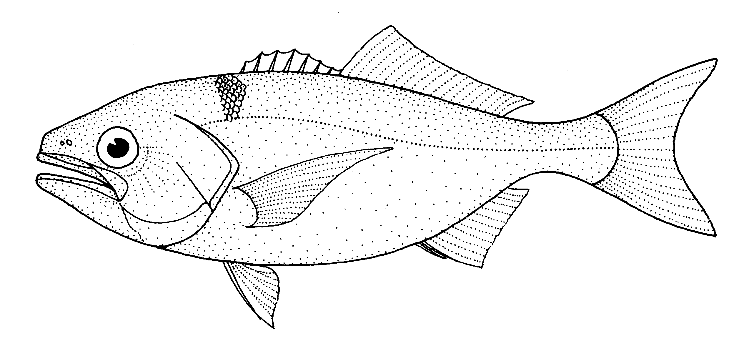 Hyperoglyphe antarctica (Antarctic butterfish)